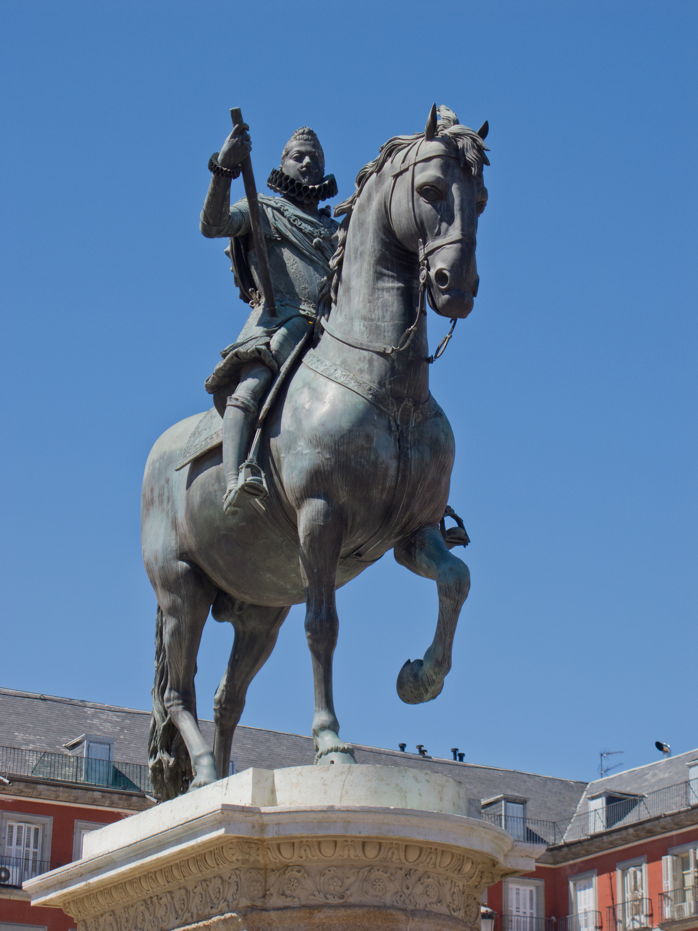 Statue of Felipe III in the Plaza Mayor, Madrid, Spain.